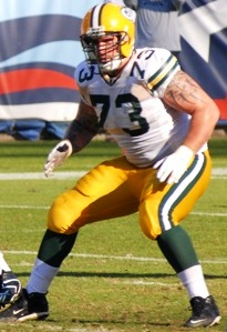 Green Bay Packers offensive guard Daryn Colledge in action in the game against the Tennessee Titans on November 2, 2008 at LP Field.